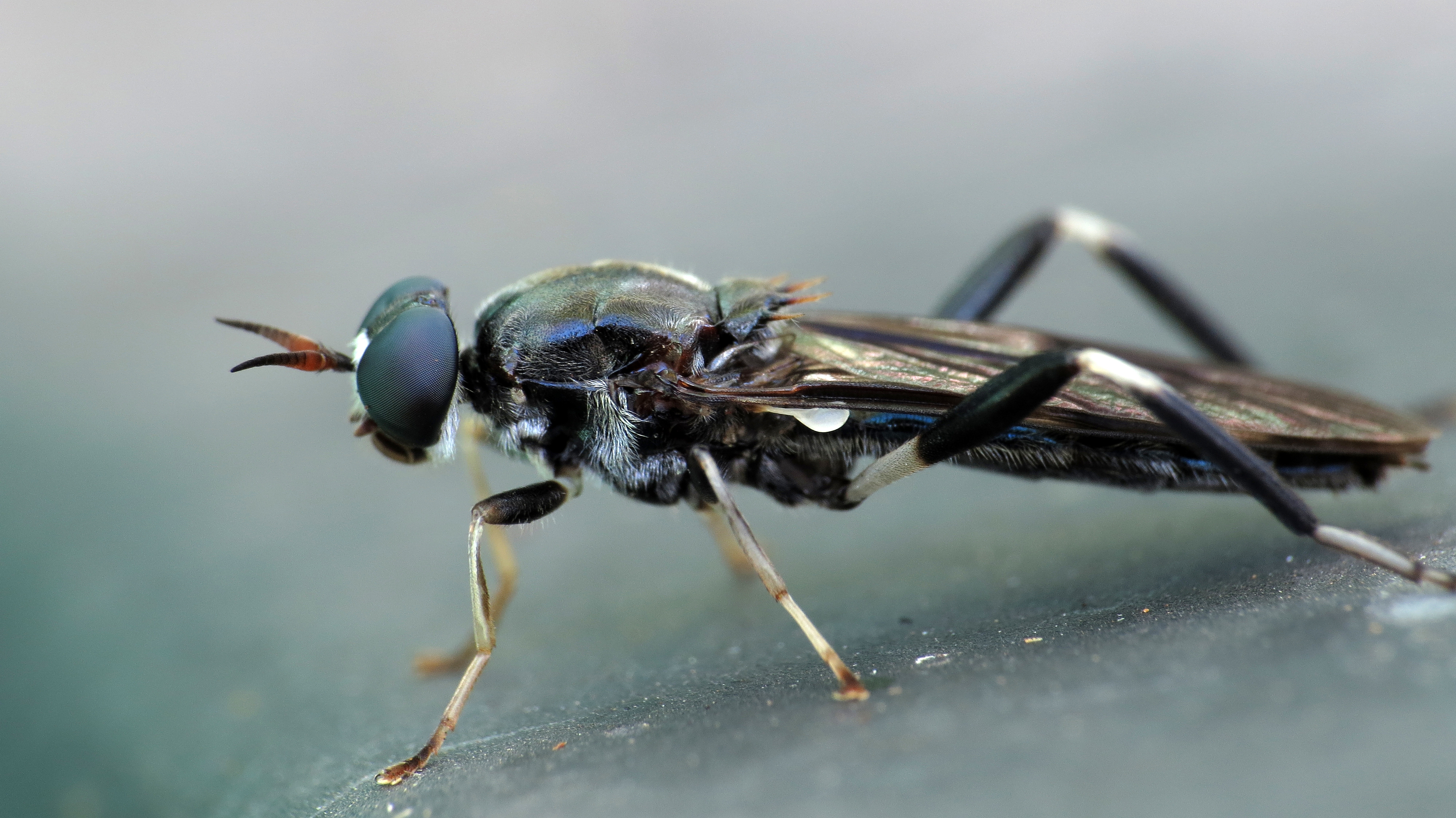 Garden Soldier Fly, Exaireta spinigera, a species of Stratiomyidae. Como, NSW, Australia, July 2014. This Stratiomyid is constantly on guard on top of my compost bin. He scurries about a lot, occasionally flying short distances.